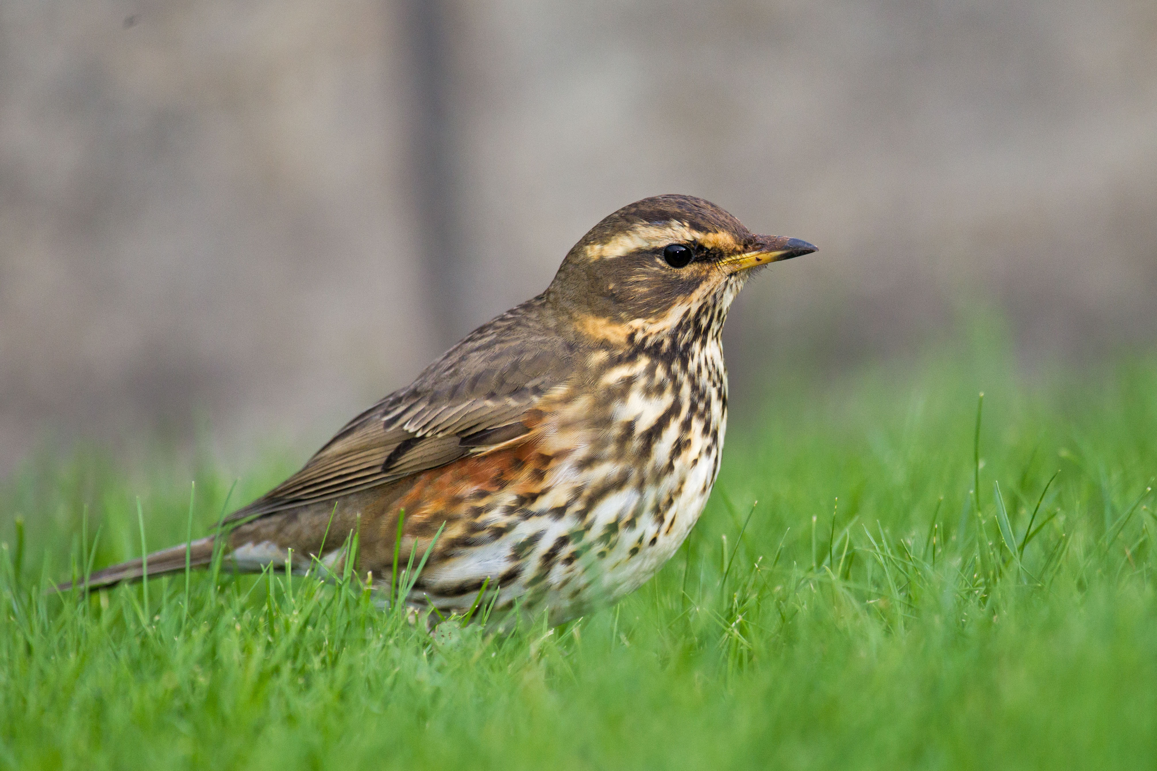 Redwing